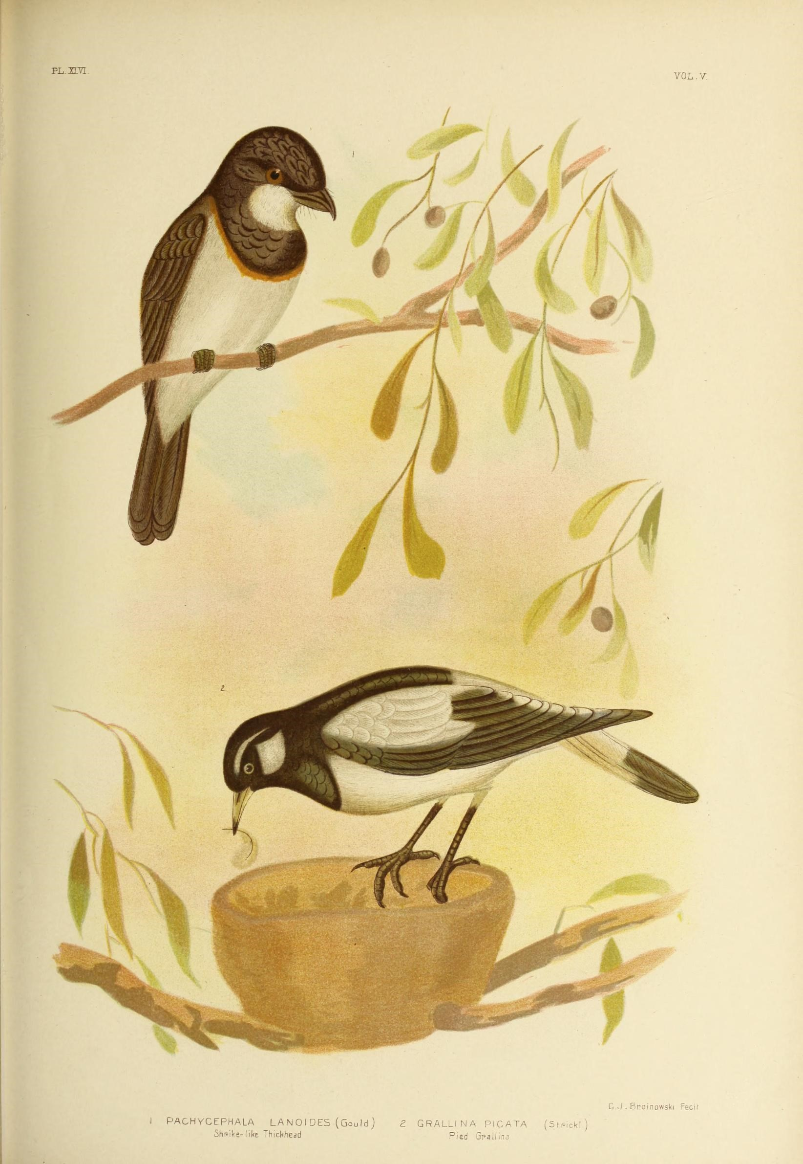 G.J . Bpoinowski Fecil I PAGH YCEPHALA LA N I DE5 ( Gou Id ) 2 GRALLINA PICATA (ShPickl ) Shpike-like Thickhead Pied Gpallina